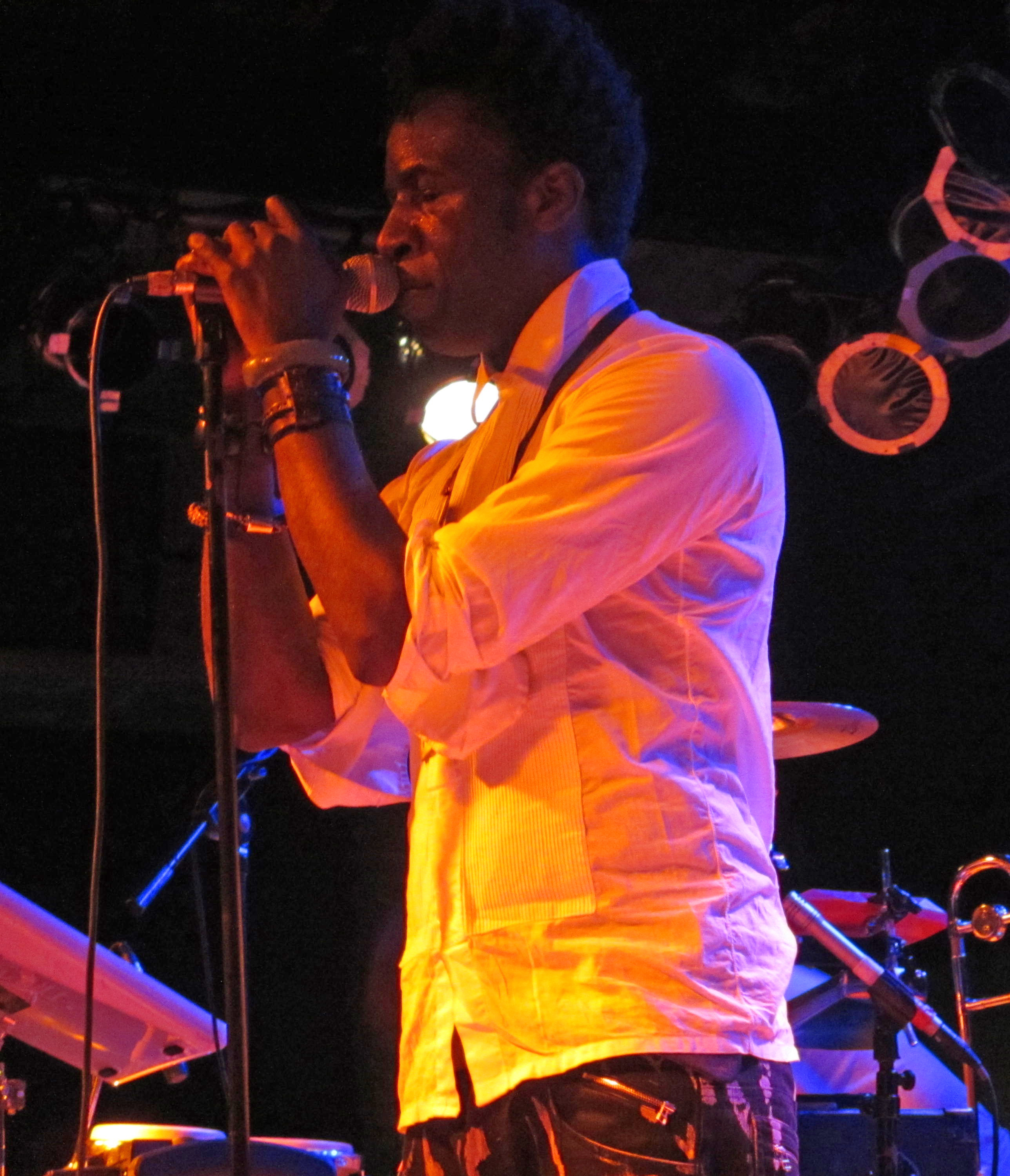 Saul Williams at Bottom Lounge, Chicago, 2012